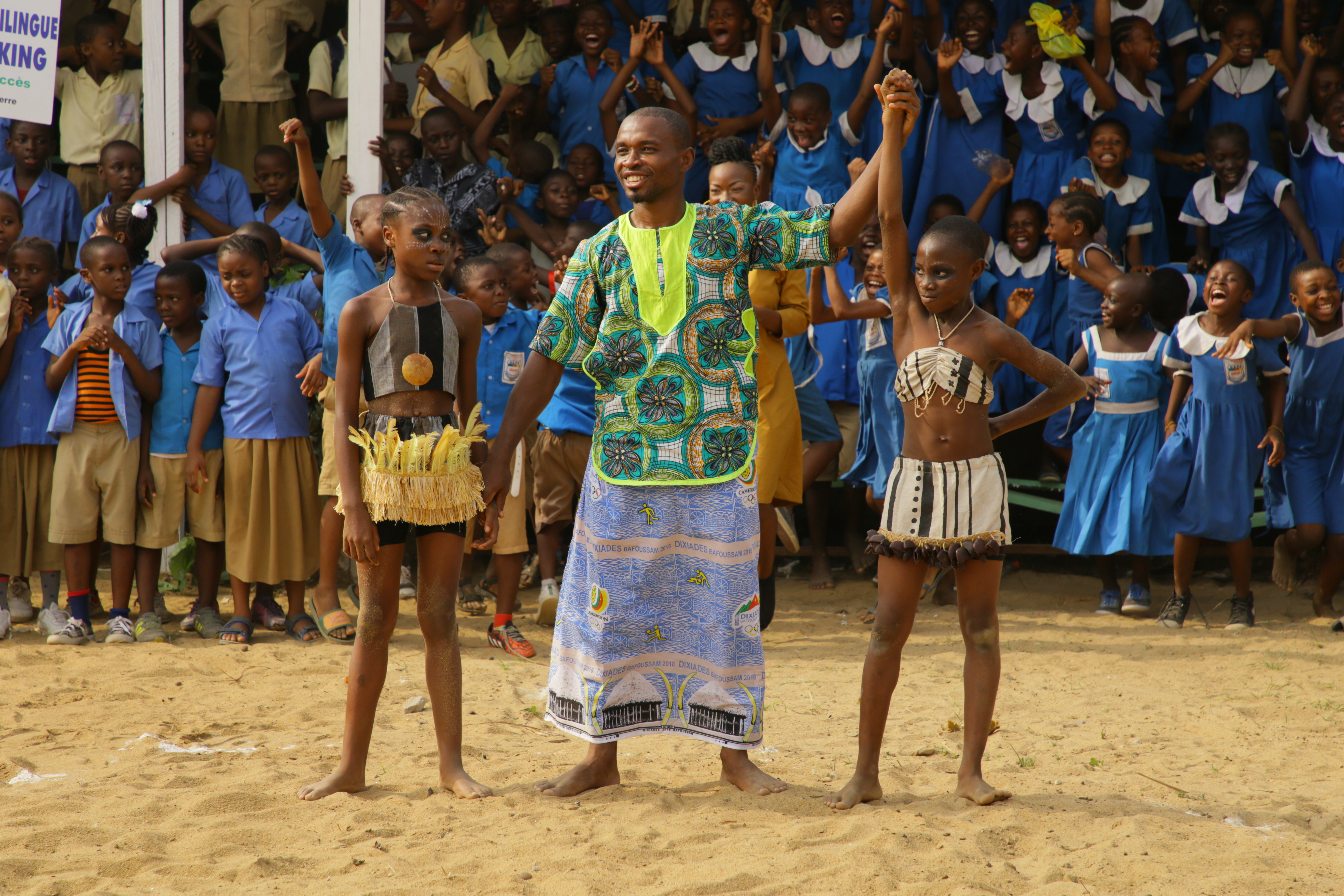 This is an image with the theme "Play" from: Cameroon